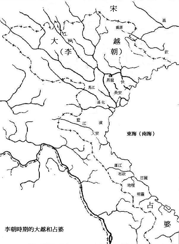 Ly Dynasty of Dai Viet and Champa